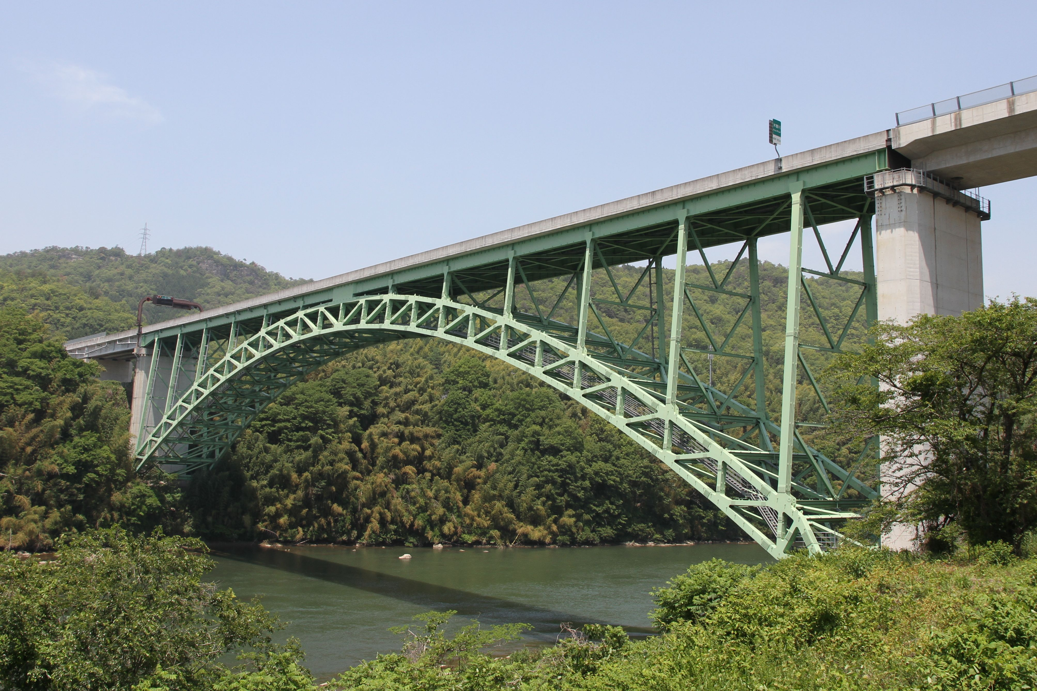 This is a picture of KisogawaBashiBridge.(Gifu-pref,Japan)